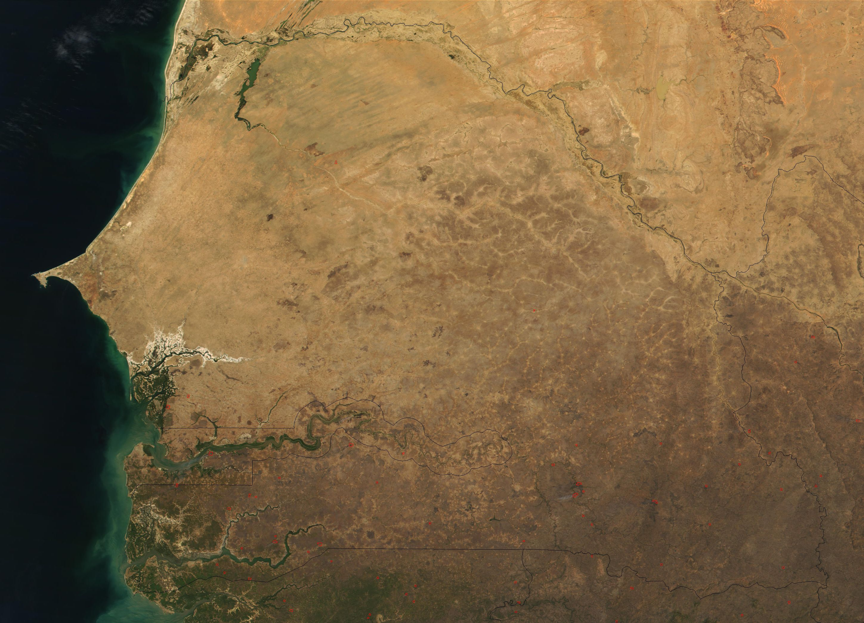 The red dots sprinkled all across this true-color image show the locations of fires in Gambia and Senegal, mostly located in the African tropical savannas just south of the Sahel region. Many fires were burning in this region throughout February 2002. This scene was acquired by the Moderate-resolution Imaging Spectroradiometer (MODIS), flying aboard NASA's Terra satellite, on Feb. 15.